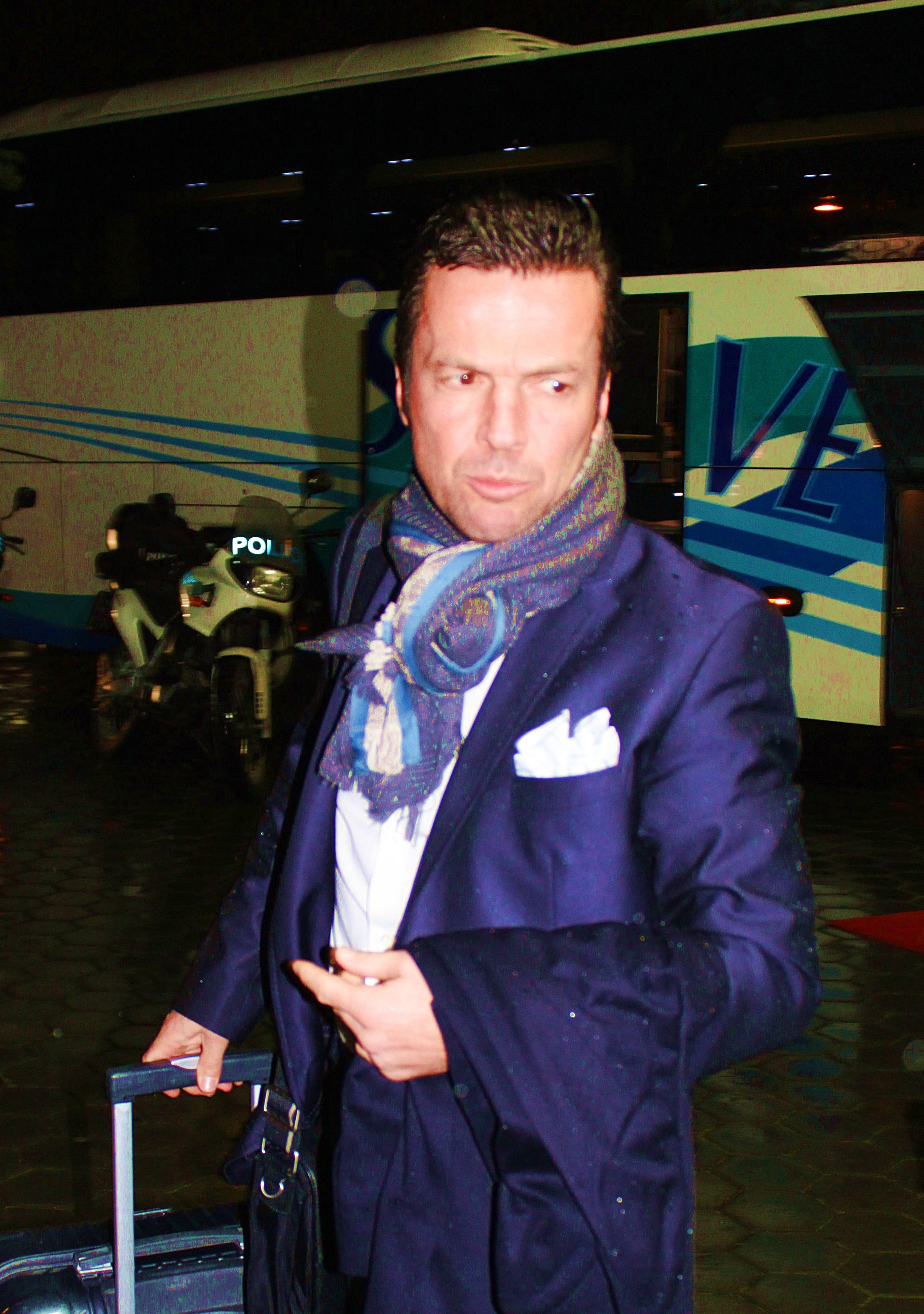 Lothar Herbert Matthäus German pronunciation: [ˈloːtaɐ̯ maˈtɛːʊs], (born 21 March 1961 in Erlangen, West Germany)[1] is a German former football player who was - at the time of taking this photo - the head coach of the Bulgaria national football team.